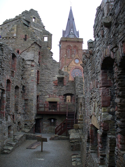 Bishop's Palace, Kirkwall Ruined palace of the mediaeval Bishops of Orkney. In the background is the spire of St Magnus Cathedral.